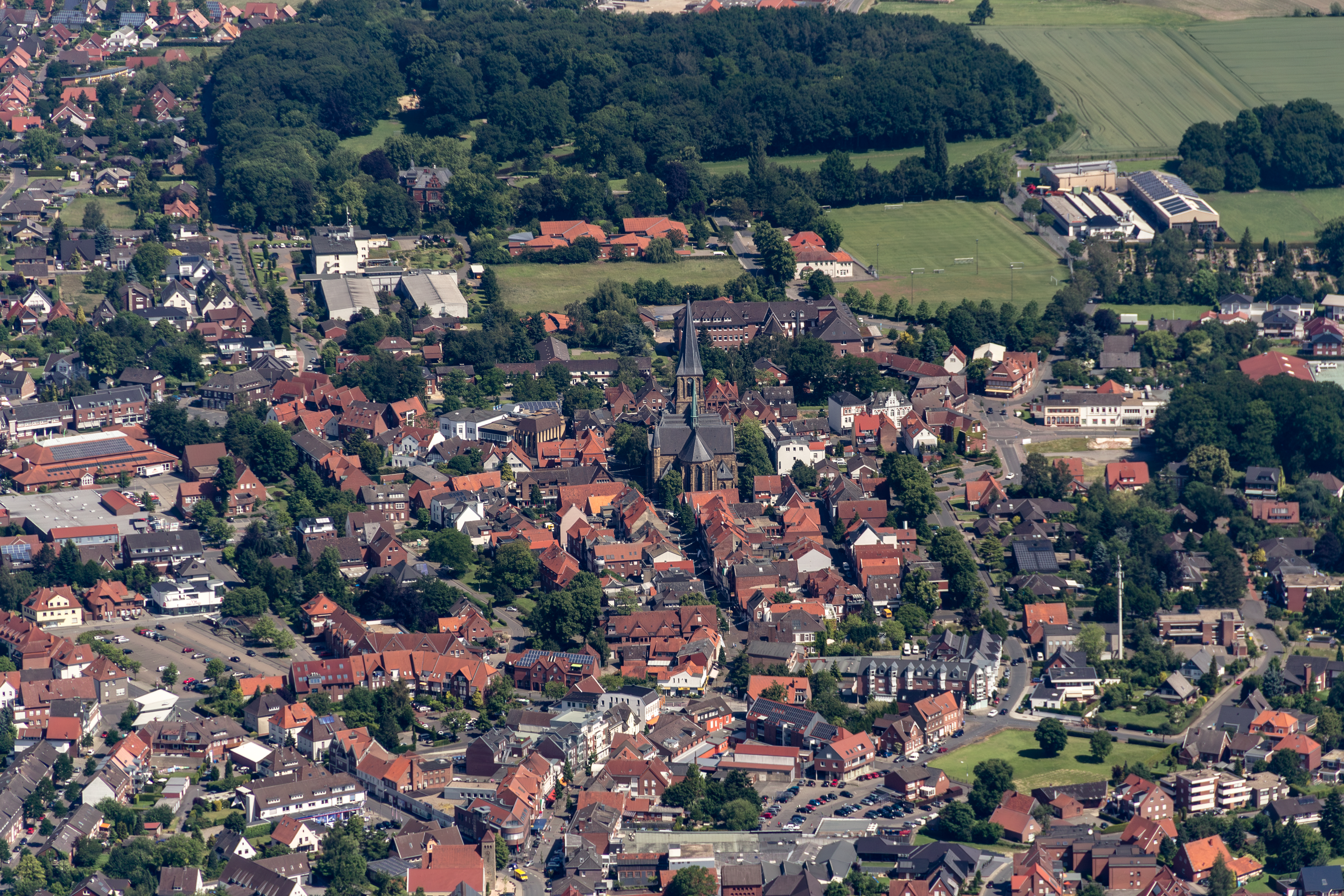 St. Lamberti Church, Ochtrup, North Rhine-Westphalia, Germany